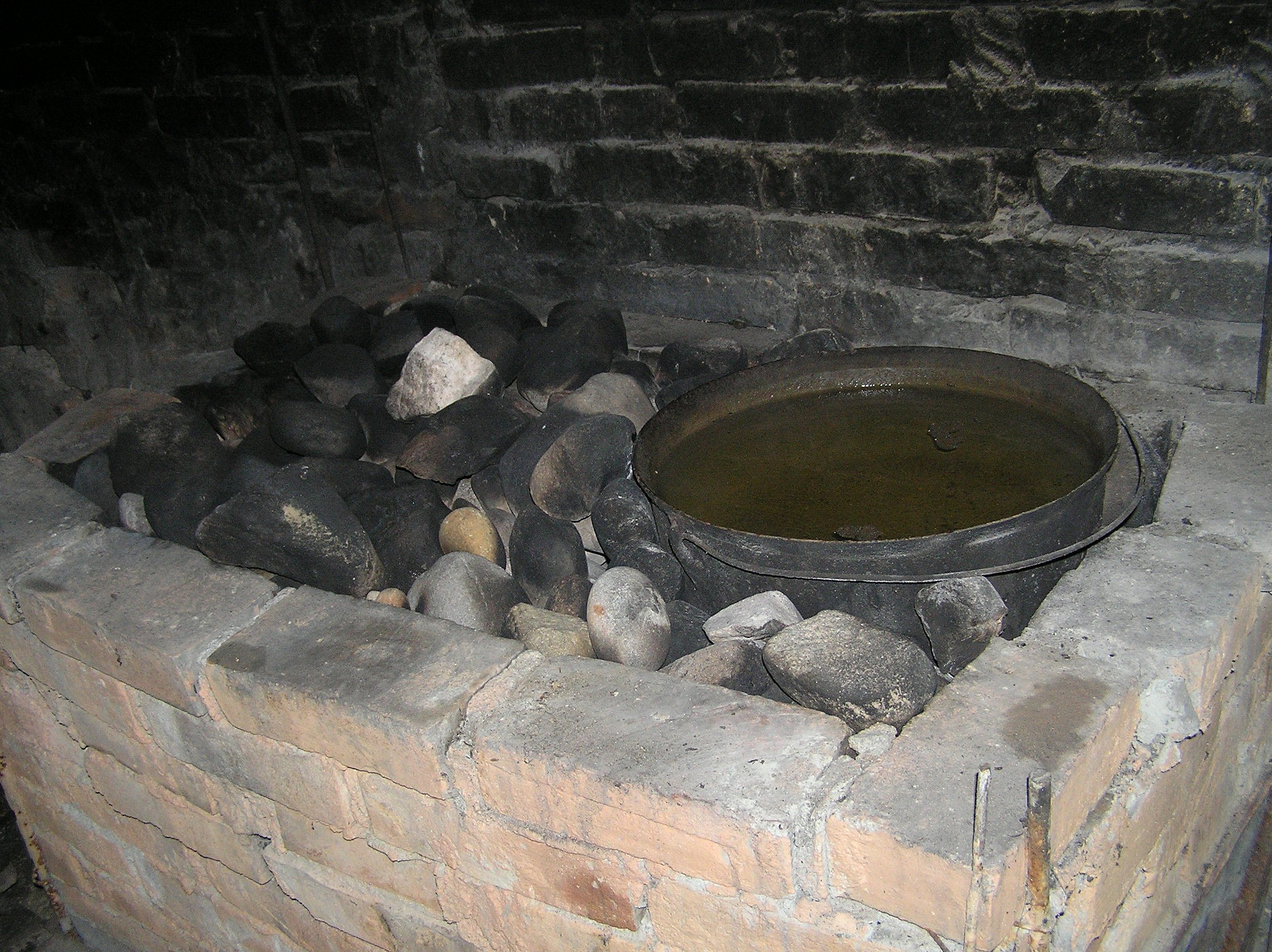 Estonian smoke sauna